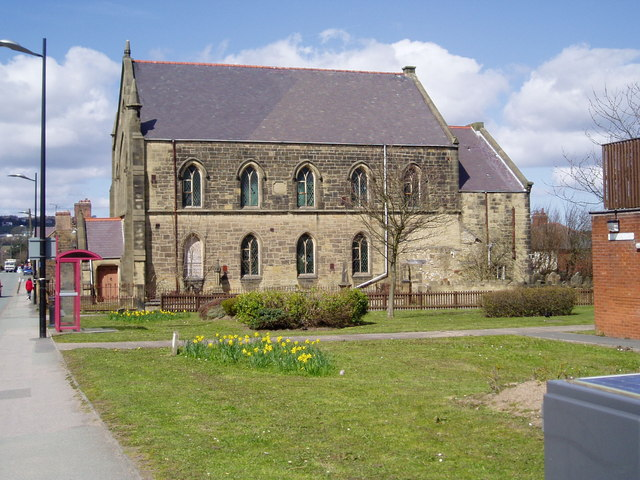 Rehoboth, Coedpoeth This large Welsh Methodist chapel in Coedpoeth is now closed, due to the condition of the building and declining congregations.